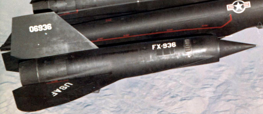 Close-up of right engine nacelle of Lockheed YF-12A showing "FX-" buzz number.